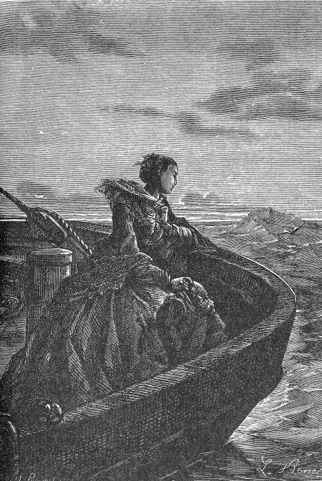 An ilustration from the novel "Around the World in Eighty Days" by Jules Verne painted by Alphonse de Neuville and/or Léon Benett.